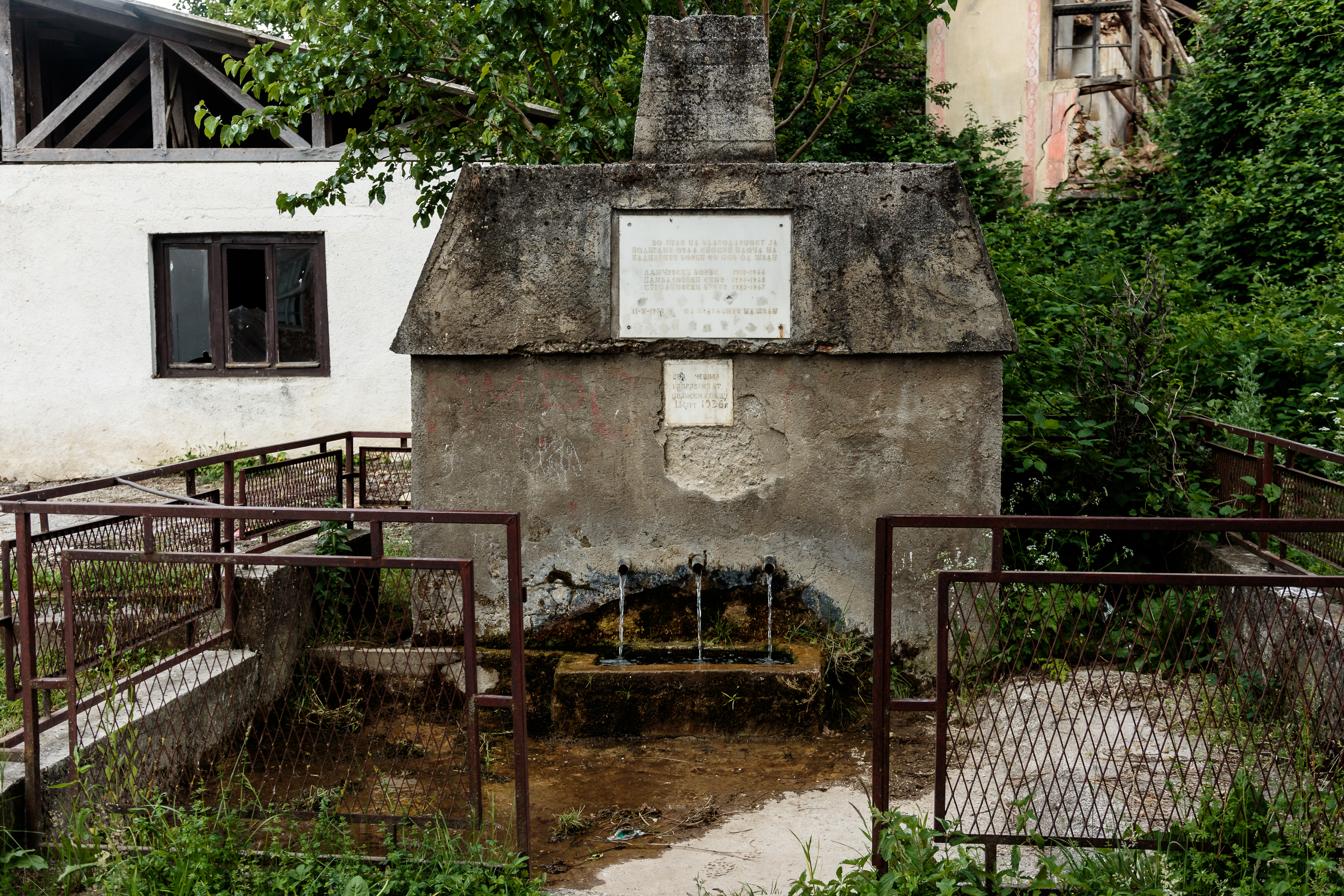 Village pump in Žvan, Macedonia